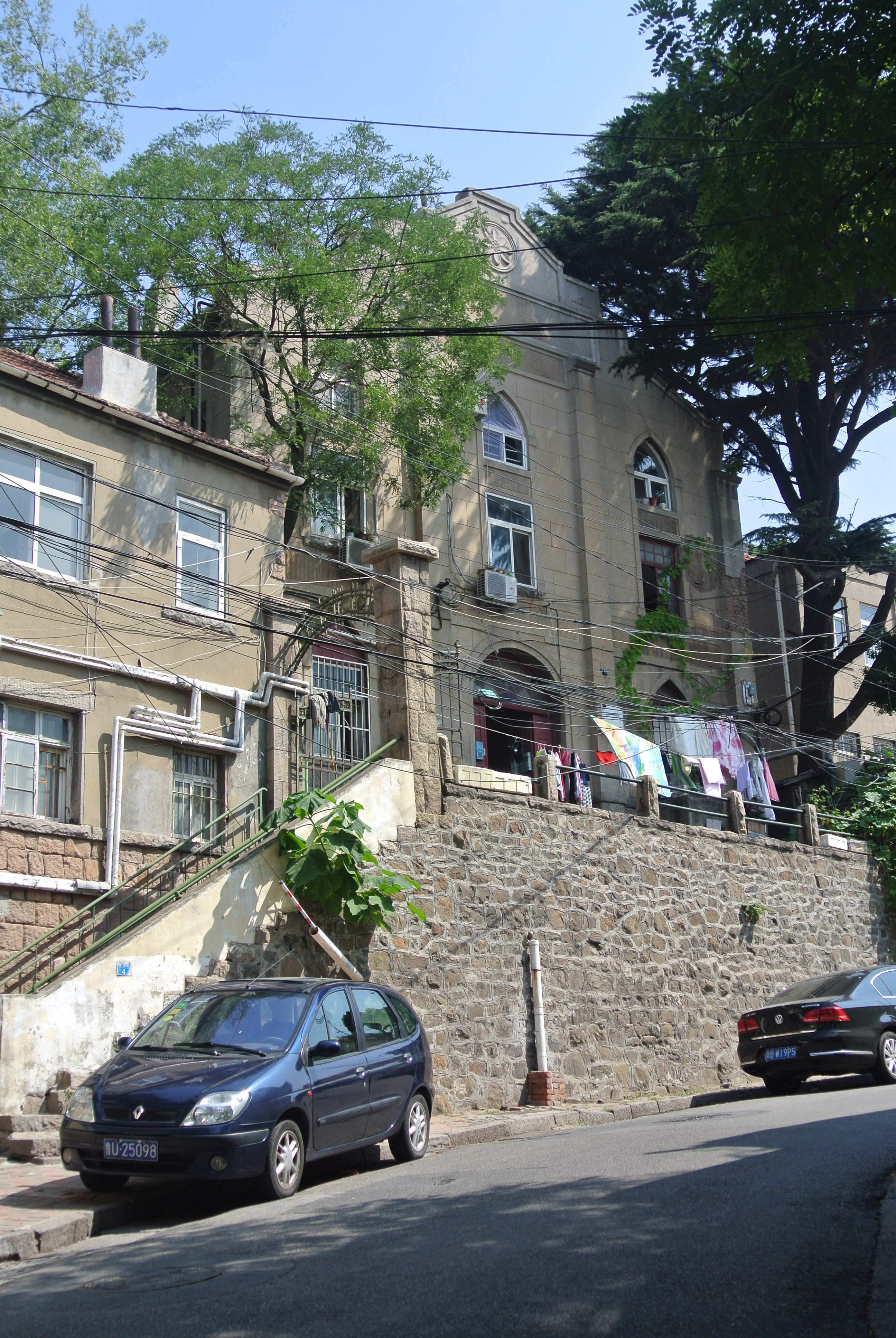 Former church building of Church of Christ in China （Presbyterian Church of China ），Qingdao